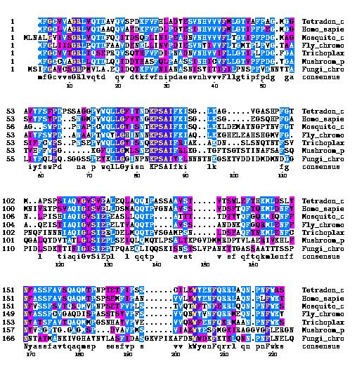 Distant homology CLUSTALW comparision of C11orf73